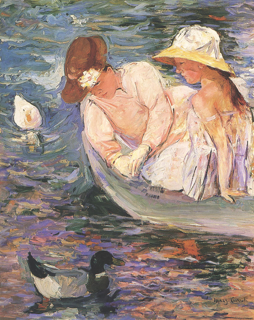 Painting "Summertime" from around 1894